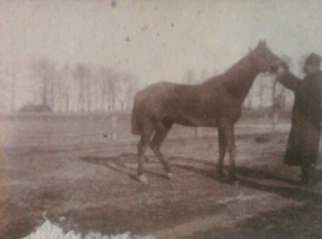 Photo of Ludwik Grabowski